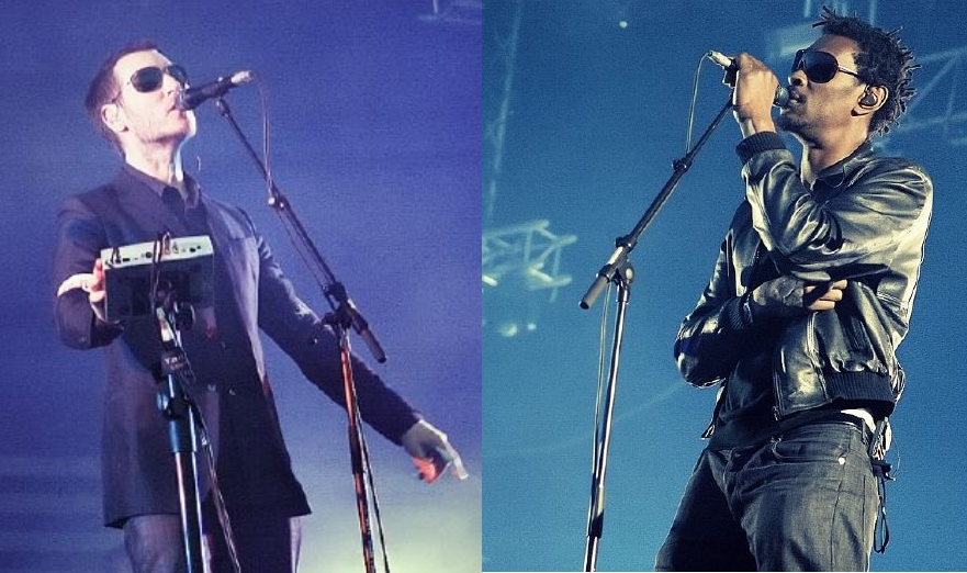 Robert del Naja (3D) and Grant Marshall (Daddy G) of Massive Attack at the Eurockéennes de Belfort Festival, 2008